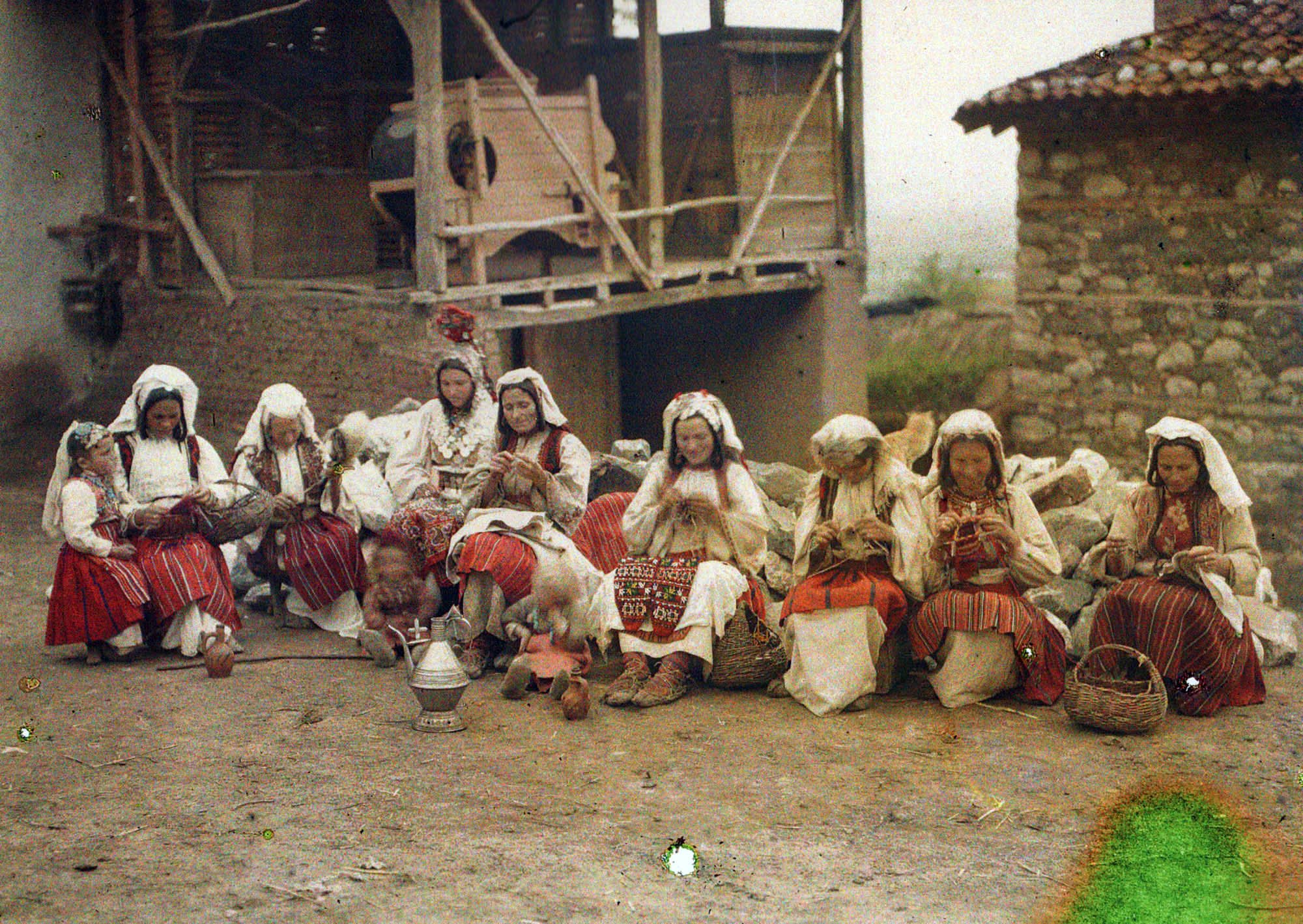 Serb women in festive dress, near Prizren. Autochrome by Auguste Léon, 9 May 1913 (Coll. Musée Albert-Kahn).